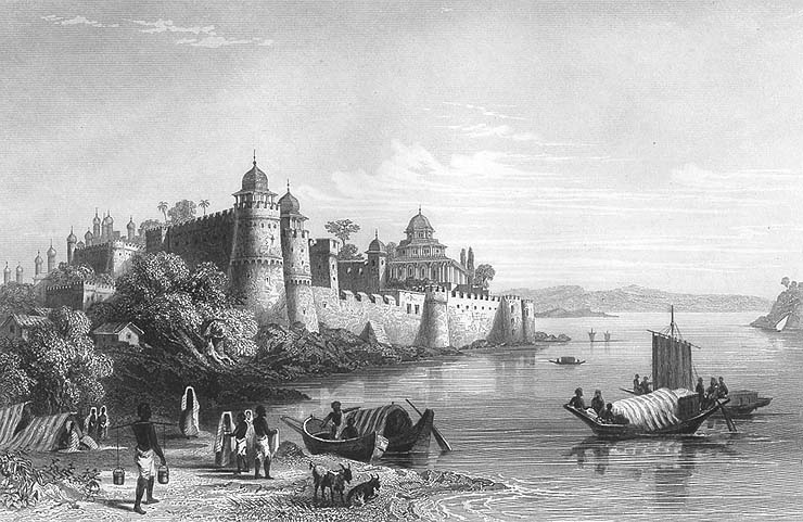 Fort of Akbar, Allahabad, 1580s.